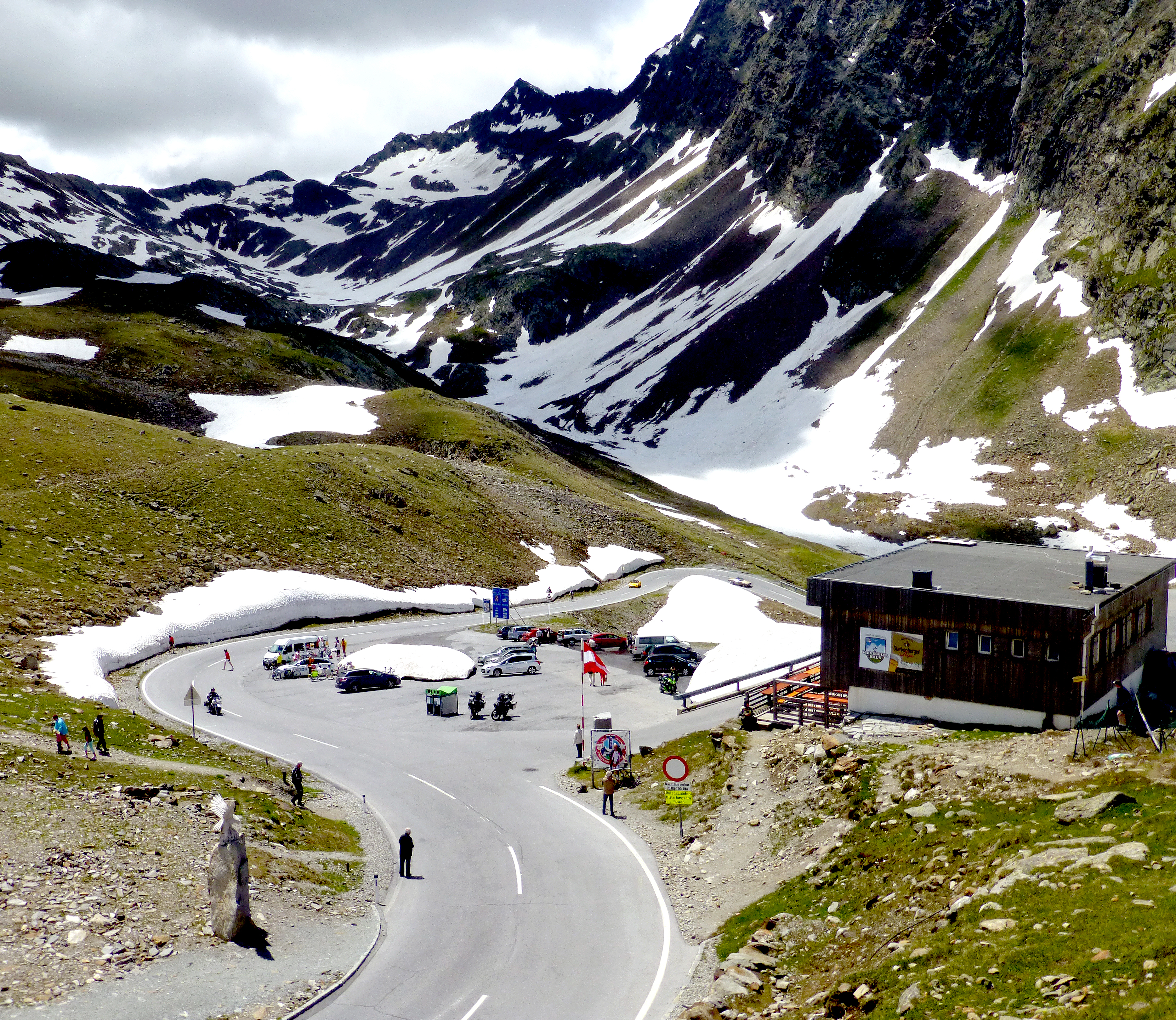 Timmelsjoch, Italy